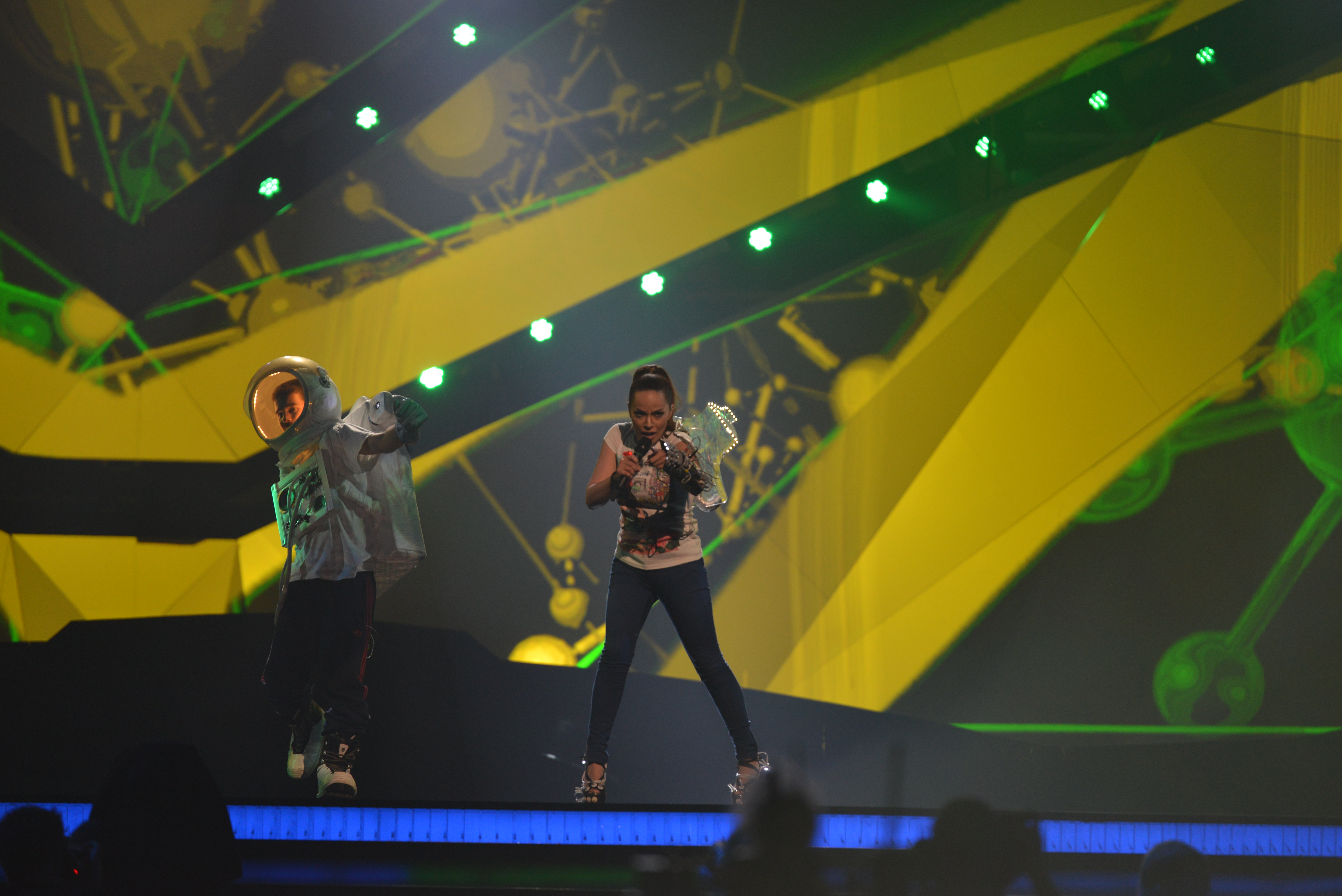 Who See representing Montenegro with the song "Igranka" (Игранка) during the first dress rehearsal of the first semi final of the Eurovision Song Contest 2013 in Malmö. (Help translate this text)